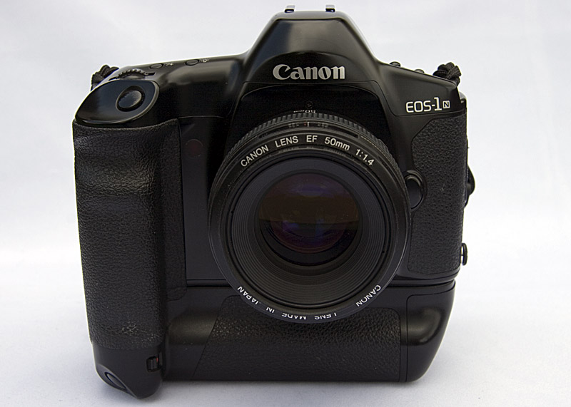 Canon 1NHS with EF 50mm f1.4 lens